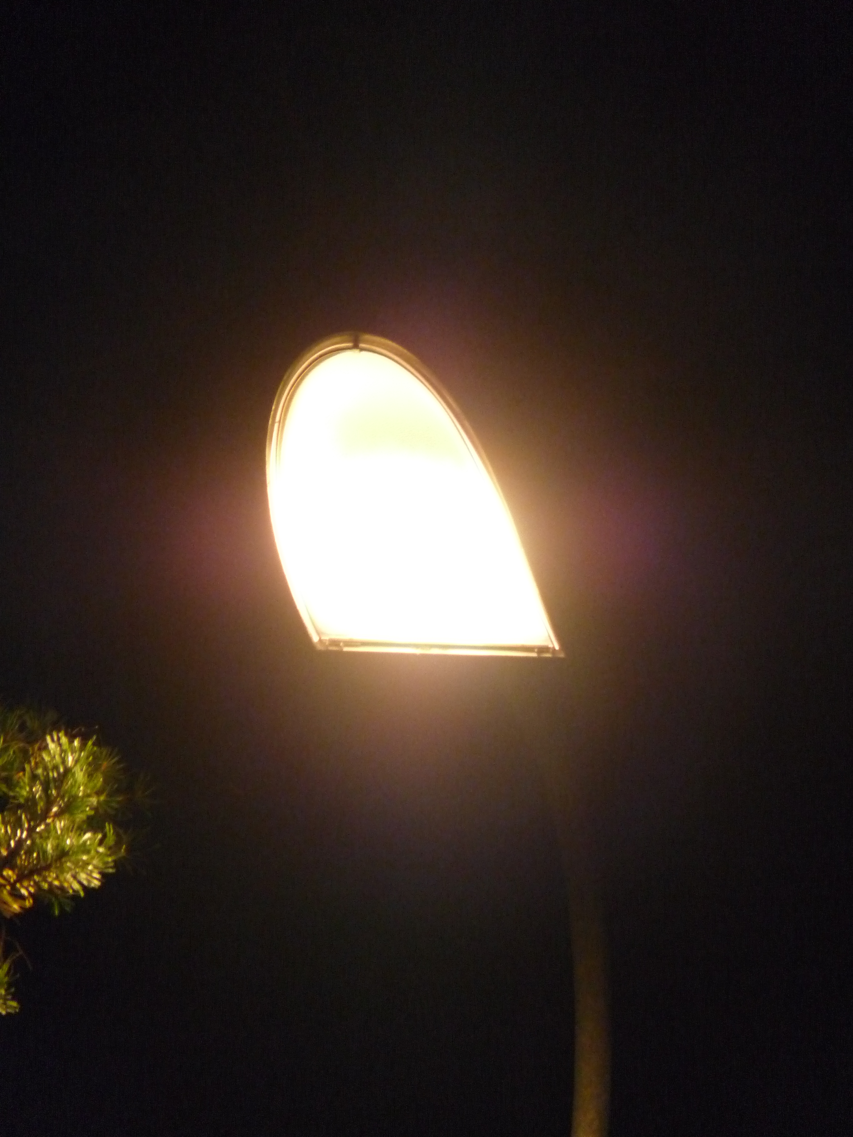 Streetlamp in Tallinn, Estonia.